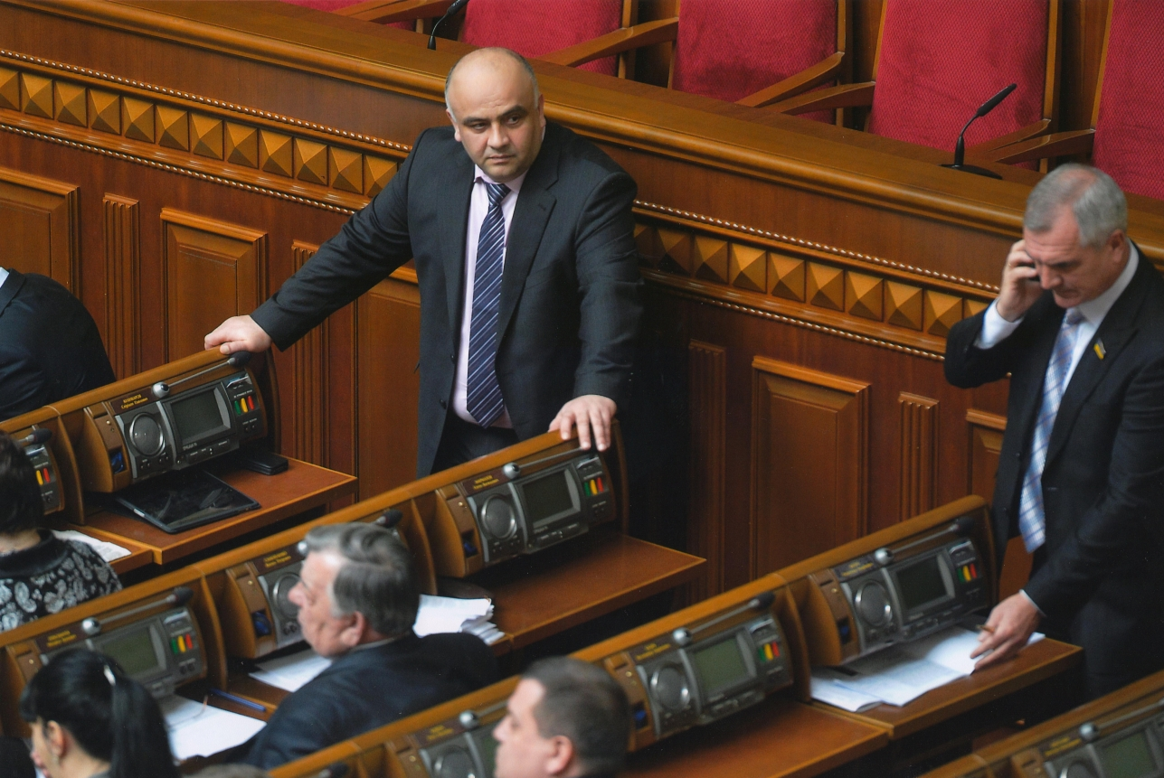 хроники Рады